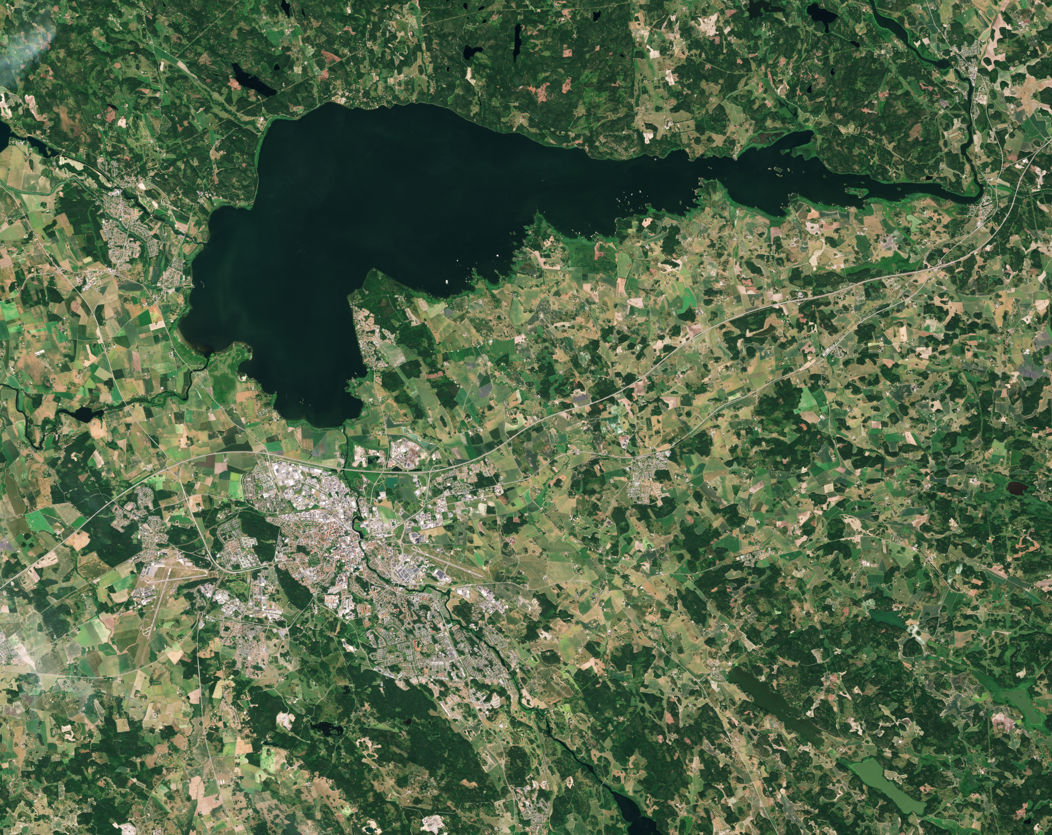 Date: 2018-07-08 Sensor: MSI on Sentinel-2A Resolution: 10m RGB Composites: True color, Band 4-3-2